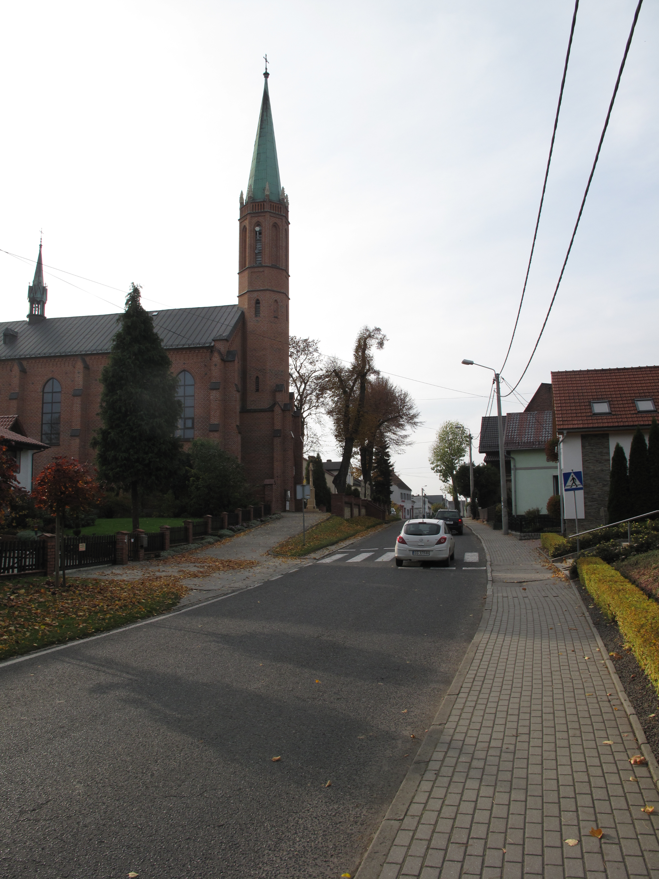 Cyprzanów. Racibórz County, Poland.